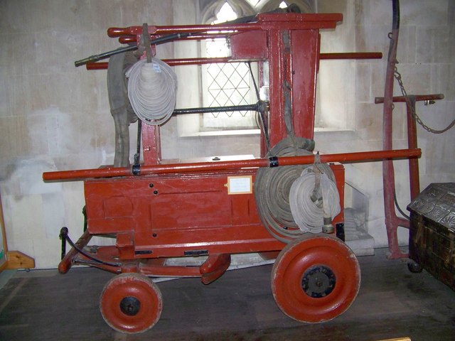 Parish fire engine, St Giles Church, Great Wishford The oldest known manual engine by Richard Newsham. This historic engine is of wooden construction, a horse-drawn four wheel type for manual operation, complete with leather hose and copper fittings. It was bought by the churchwardens in 1728.